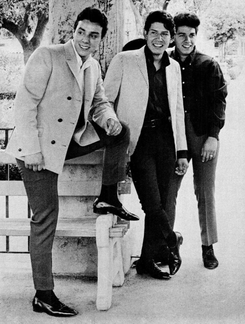 Trade ad for Cannibal & the Headhunters's single "Land of a Thousand Dances". To better adapt it to his respective Wikipedia article, the ad was cropped and cleaned in a graphics editing program. The original can be viewed at the source below.